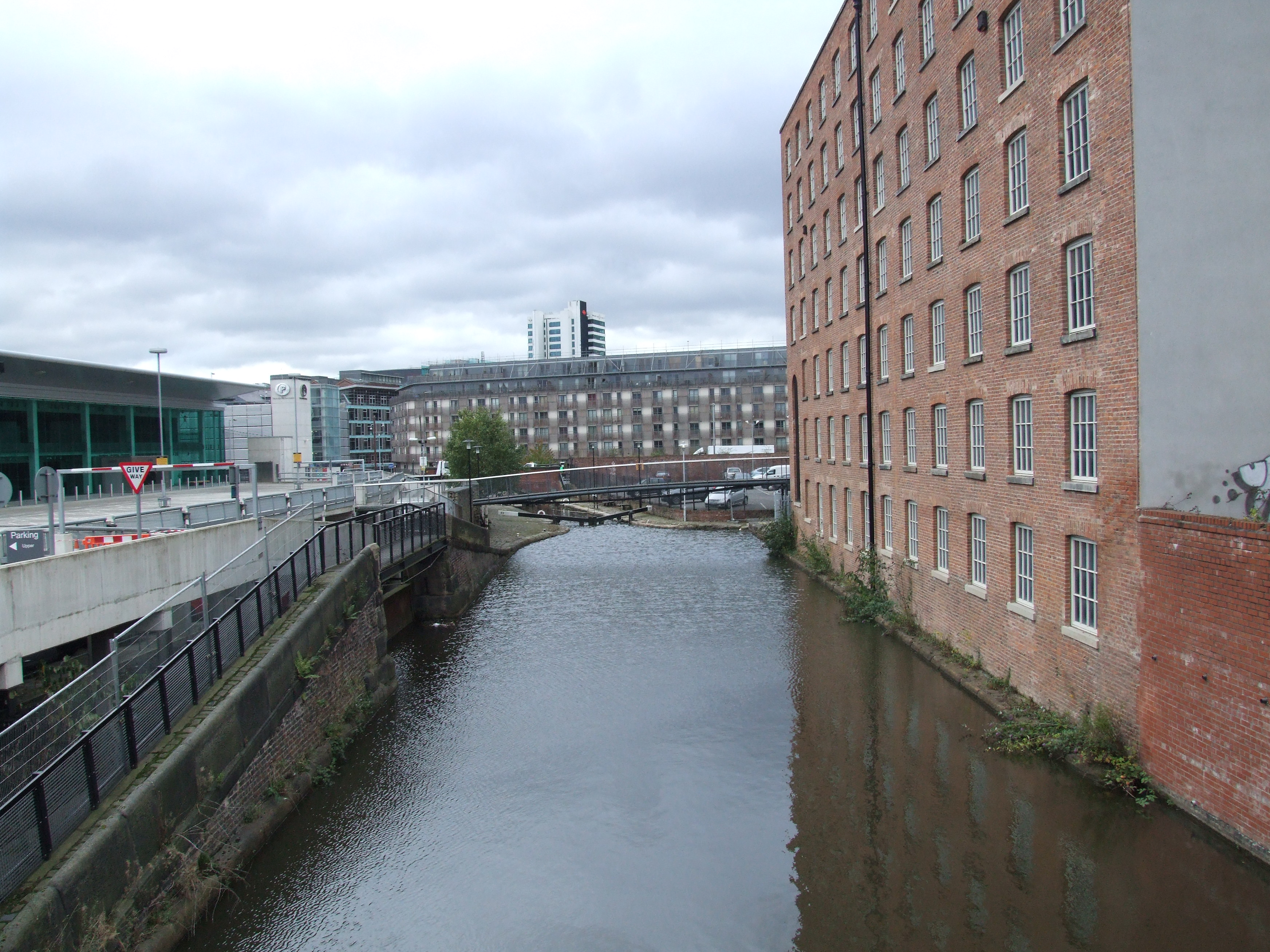 Brownsfield Mill, the Rochdale Canal the pound above lock 83, to the left former arm to coal wharfs. Seen from Great Ancoats Street